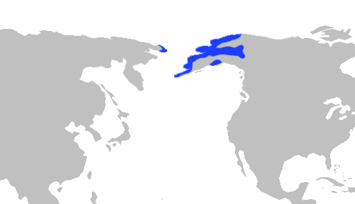 Range map of Dallia pectoralis